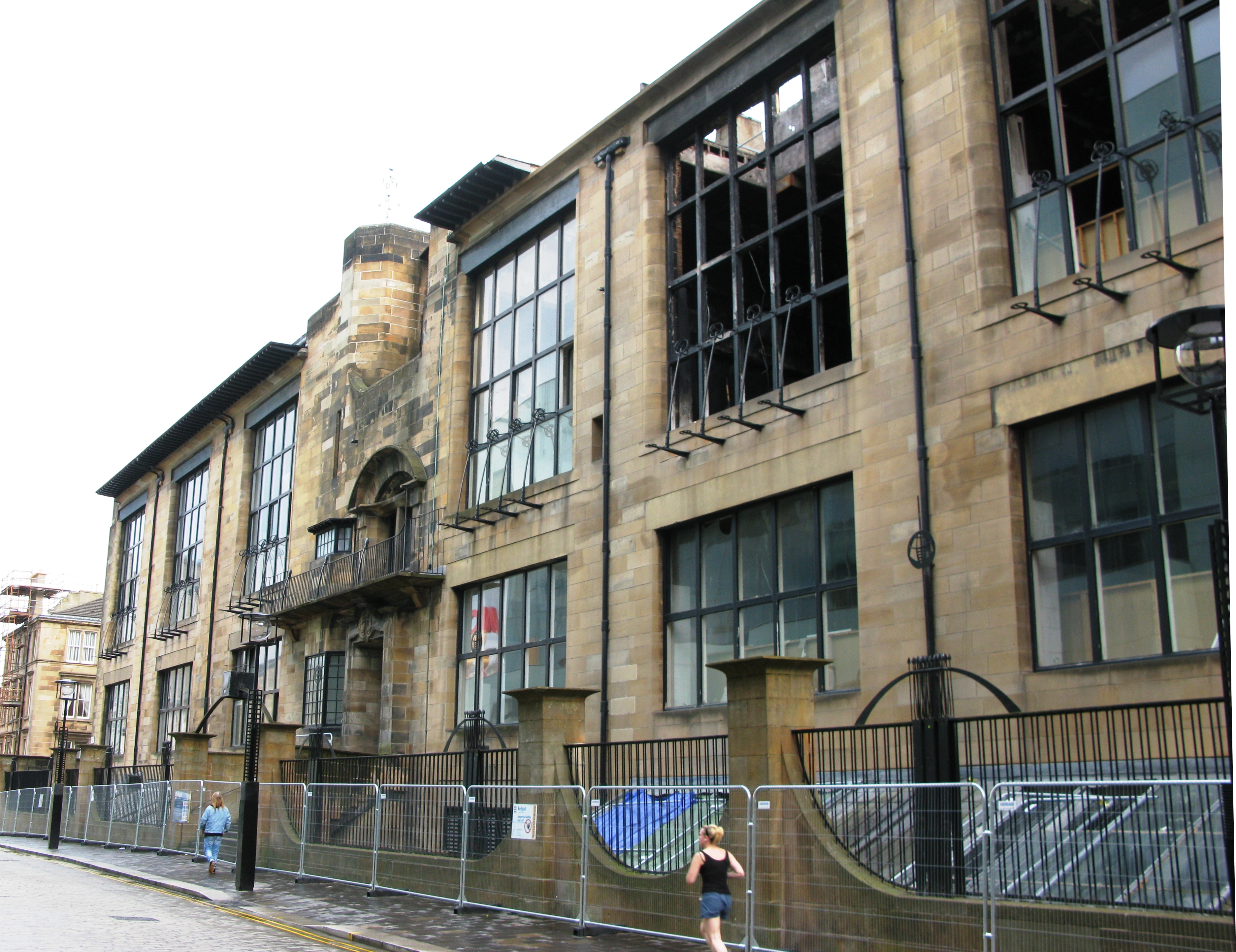 The front (north) facade of Charles Rennie Mackintosh's Glasgow School of Art on Renfrew Street, Garnethill in Glasgow, Scotland. Shown after the fire damage in May 2014.